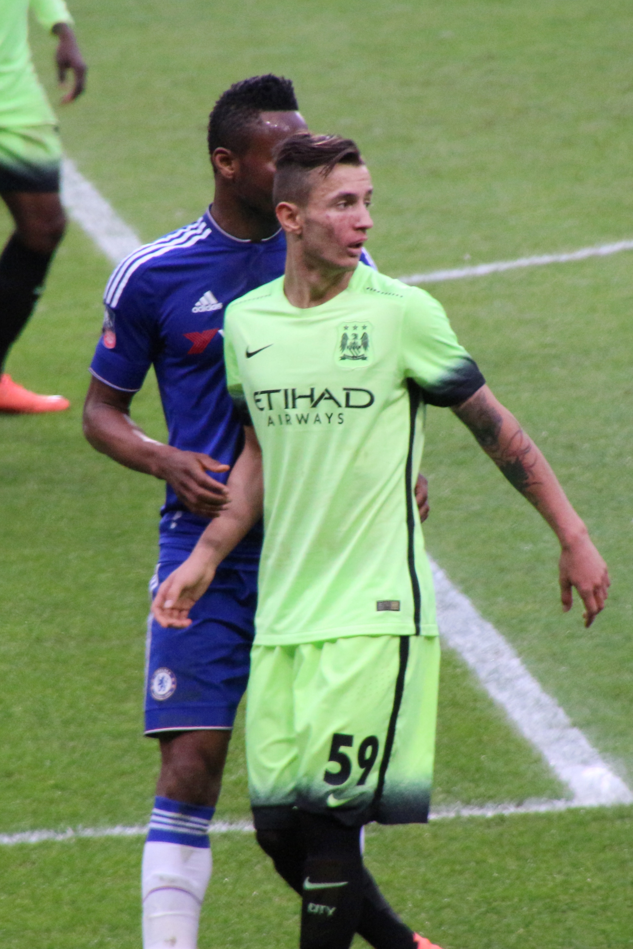 Bersant Celina. Chelsea 5-1 Manchester City, FA Cup 5th round 2015-16.